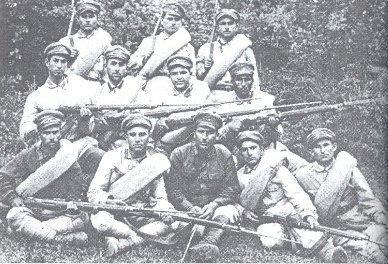 Mikayil Mushfig (2nd from the left in the 1st row) in army